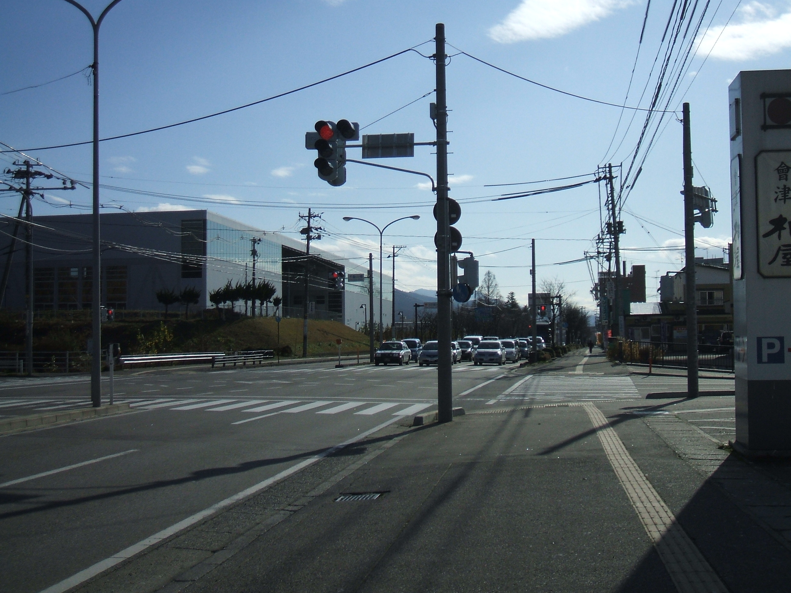 View of Sengoku-Dori street at Fudogawa-Bashi Intersection in Aizuwakamatsu City, Fukushima Prefecture, Japan